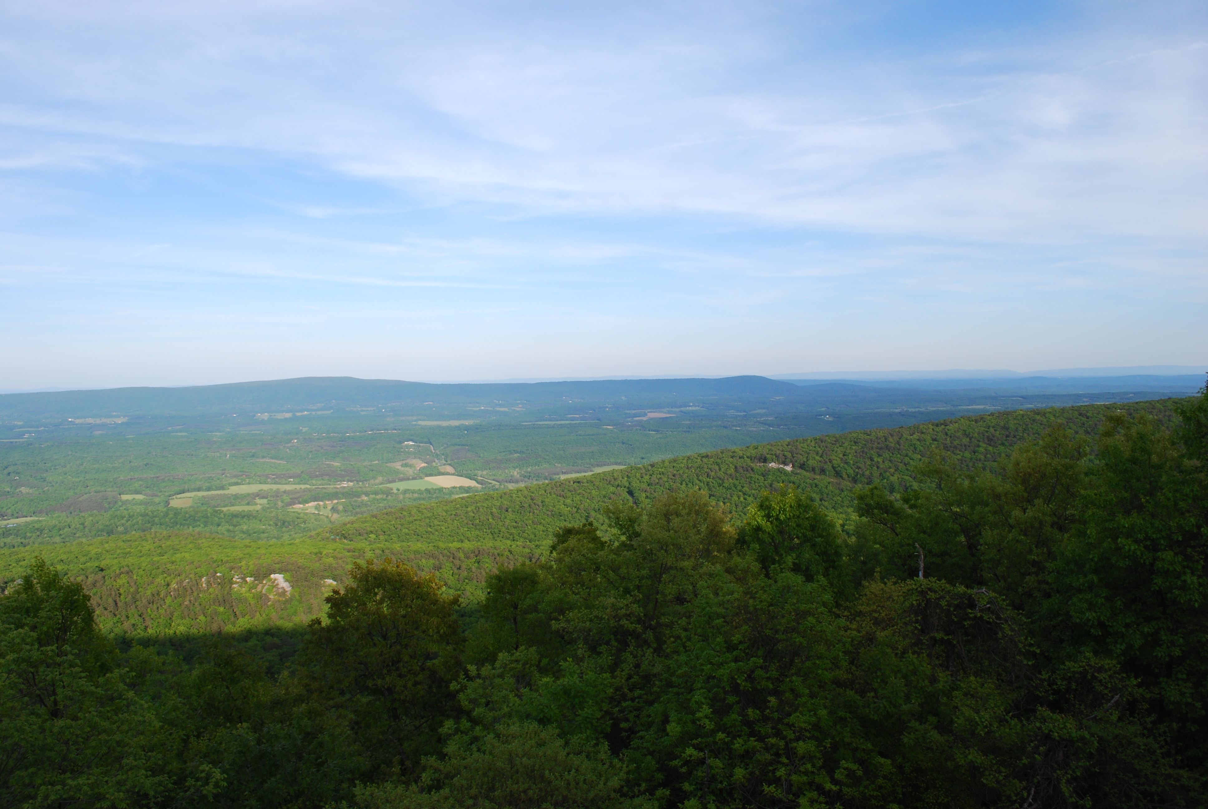 Looking southeast from Cacapon Mountain overlook in Cacapon Resort State Park near Berkeley Springs, West Virginia.